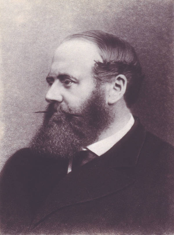 Photograph of Jenico Preston.